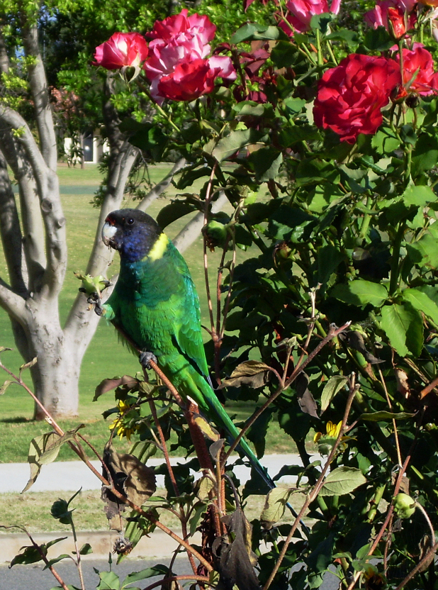 Australian Ringneck eating a sunflower in a garden in Perth, Australia.